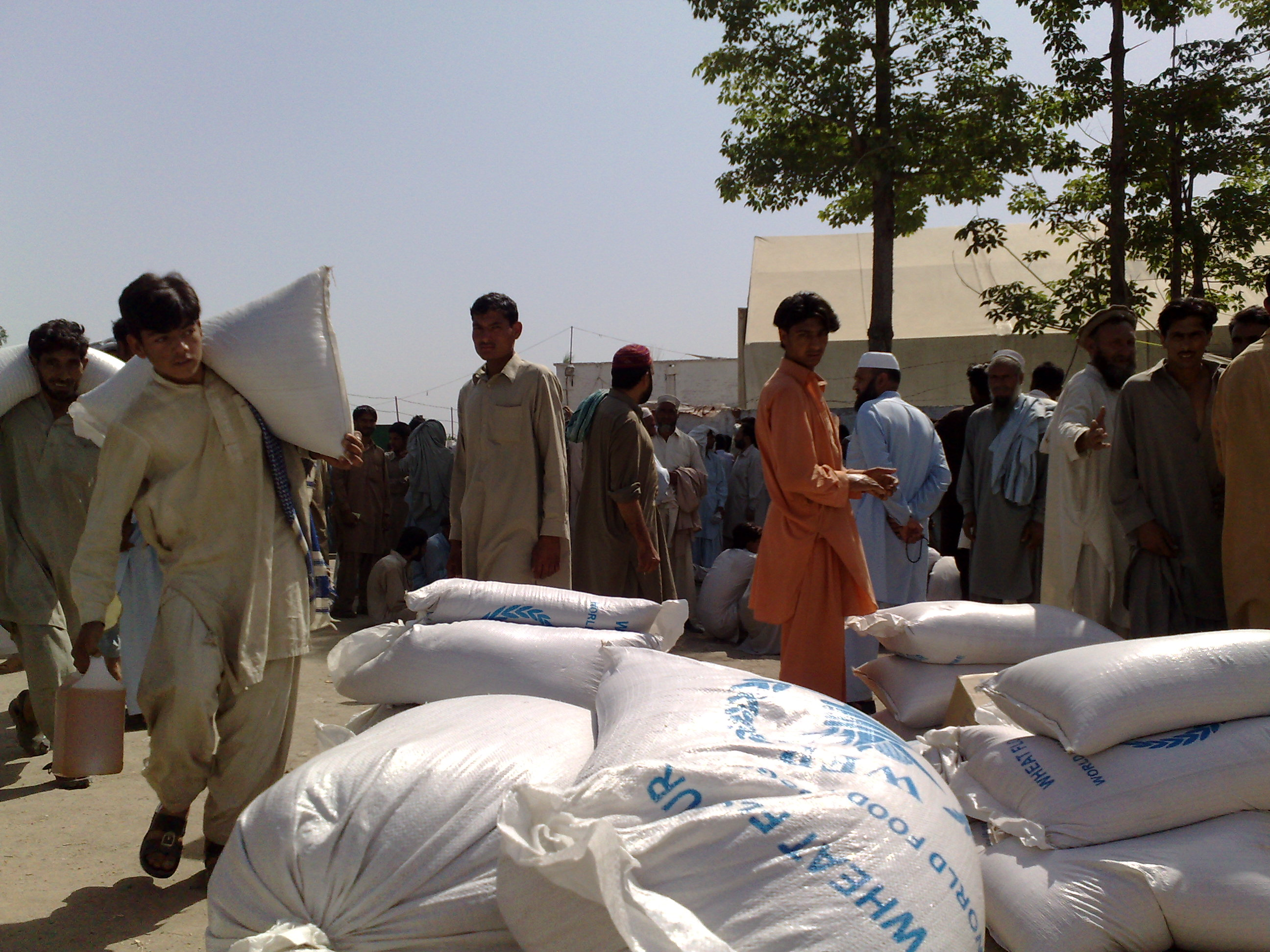 Many of the displaced are staying in the homes of friends, families or complete strangers, putting a massive strain on people who were previously untouched by the conflict.